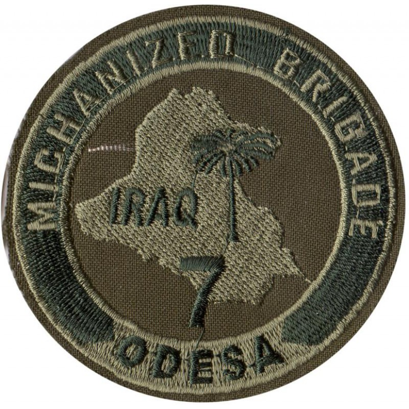 Ukrainian military in the Iraq War Patches